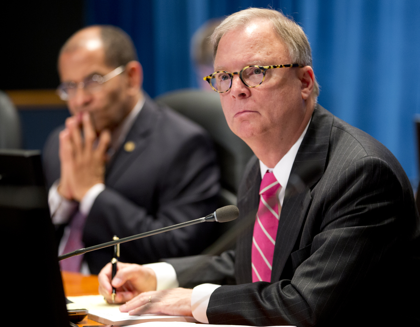 NTSB Board Member Robert Sumwalt listens to presentations during the NTSB hearing on the Jan. 12 WMATA electrical arcing/smoke event at L’Enfant Plaza Station.